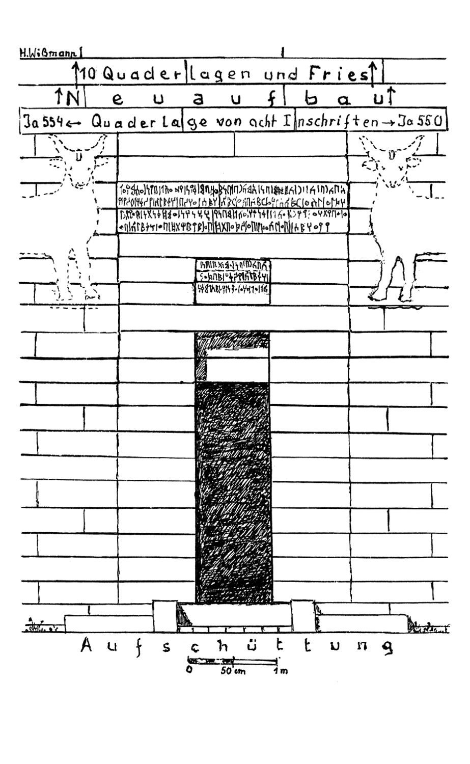 Reconstruction of the Northwest gate of Awwam oval sanctuary